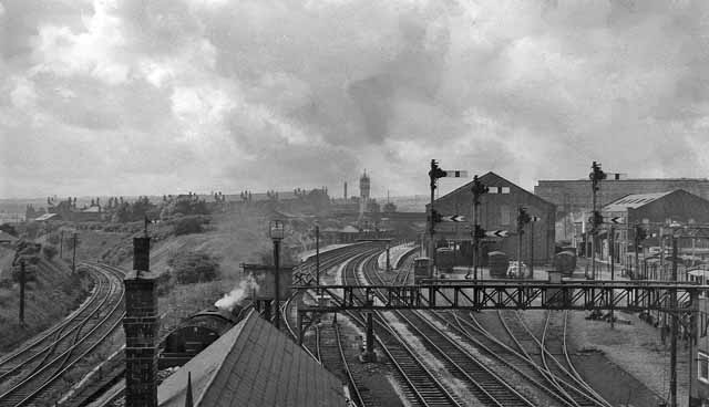 Bury (Knowsley Street) Station and loop line to Radcliffe. View westward, probably from Market St. Bridge; ex-Lancashire & Yorkshire, Bolton - Bury - Rochdale line, connecting (just beyond the platforms visible) with the Manchester - Bury (Bolton St.) line; the lines on the left are the former loop towards Manchester via Radcliffe Bridge. The line from Bolton was closed on 5/68, on to Rochdale on 5/1/70, but the heritage East Lancashire Railway have recently restored a service from Bury (Bolton St.) towards Rochdale as far as Heywood. [I am open to correction here, as I am unfamiliar with the area].